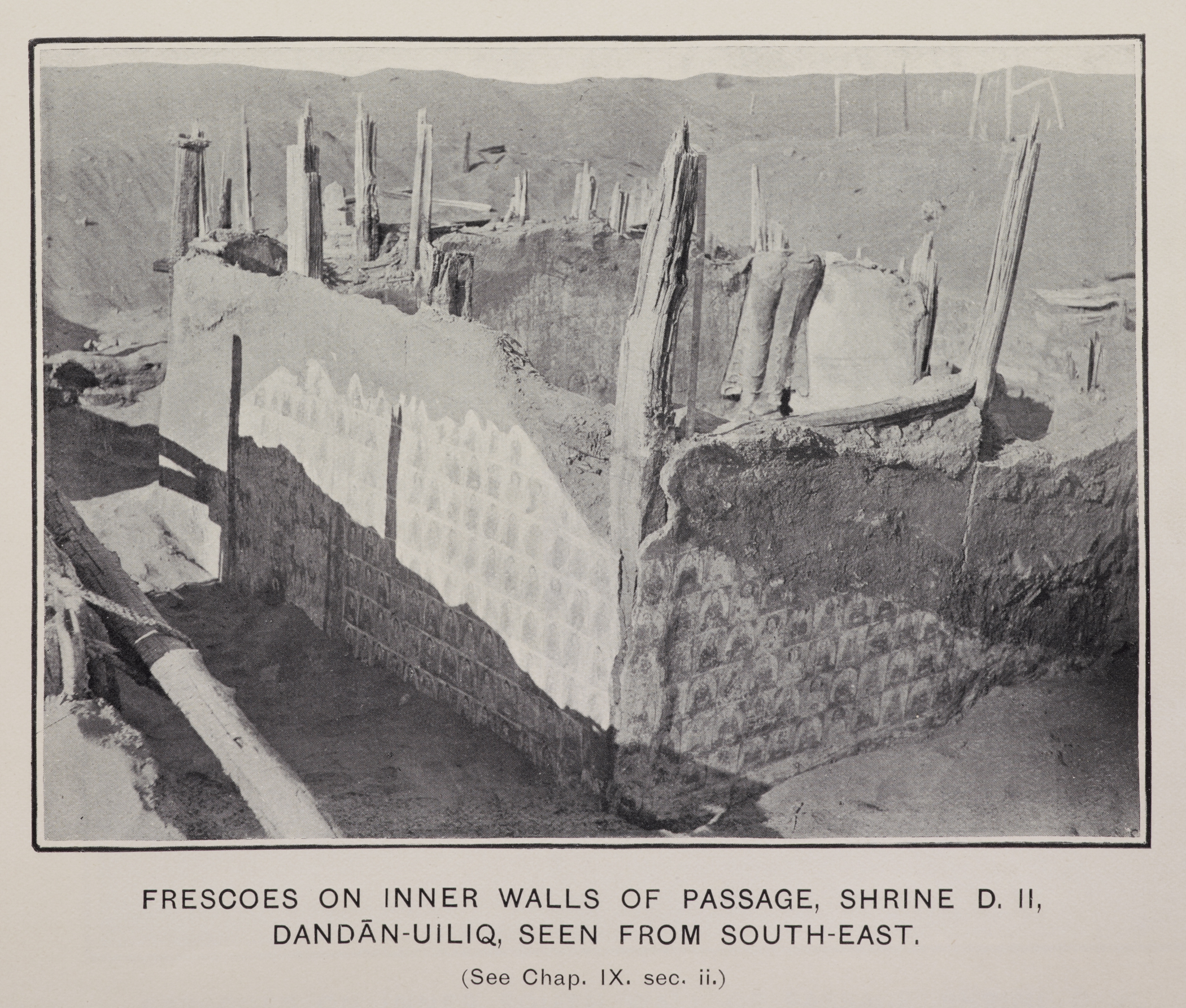 Wall paintings on inner walls of passage, Buddhist shrine D.II., Dand_n-Uiliq, seen from southeast.